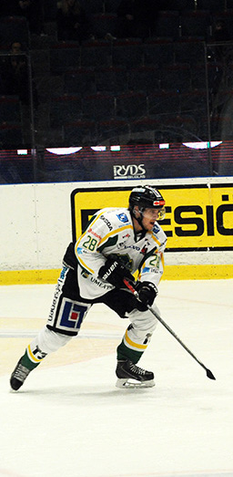 IF Björklöven forward Lucas Sandström during a HockeyAllsvenskan game vs. AIK